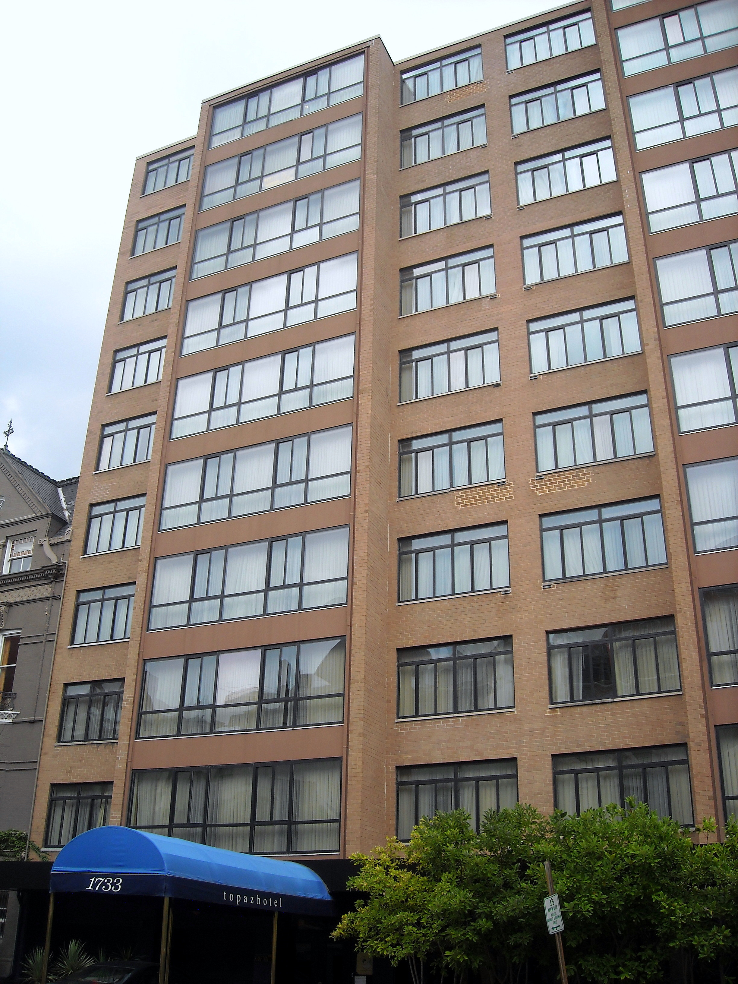 Exterior of the Topaz Hotel located at 1733 N Street, NW in the Dupont Circle neighborhood of Washington, D.C.